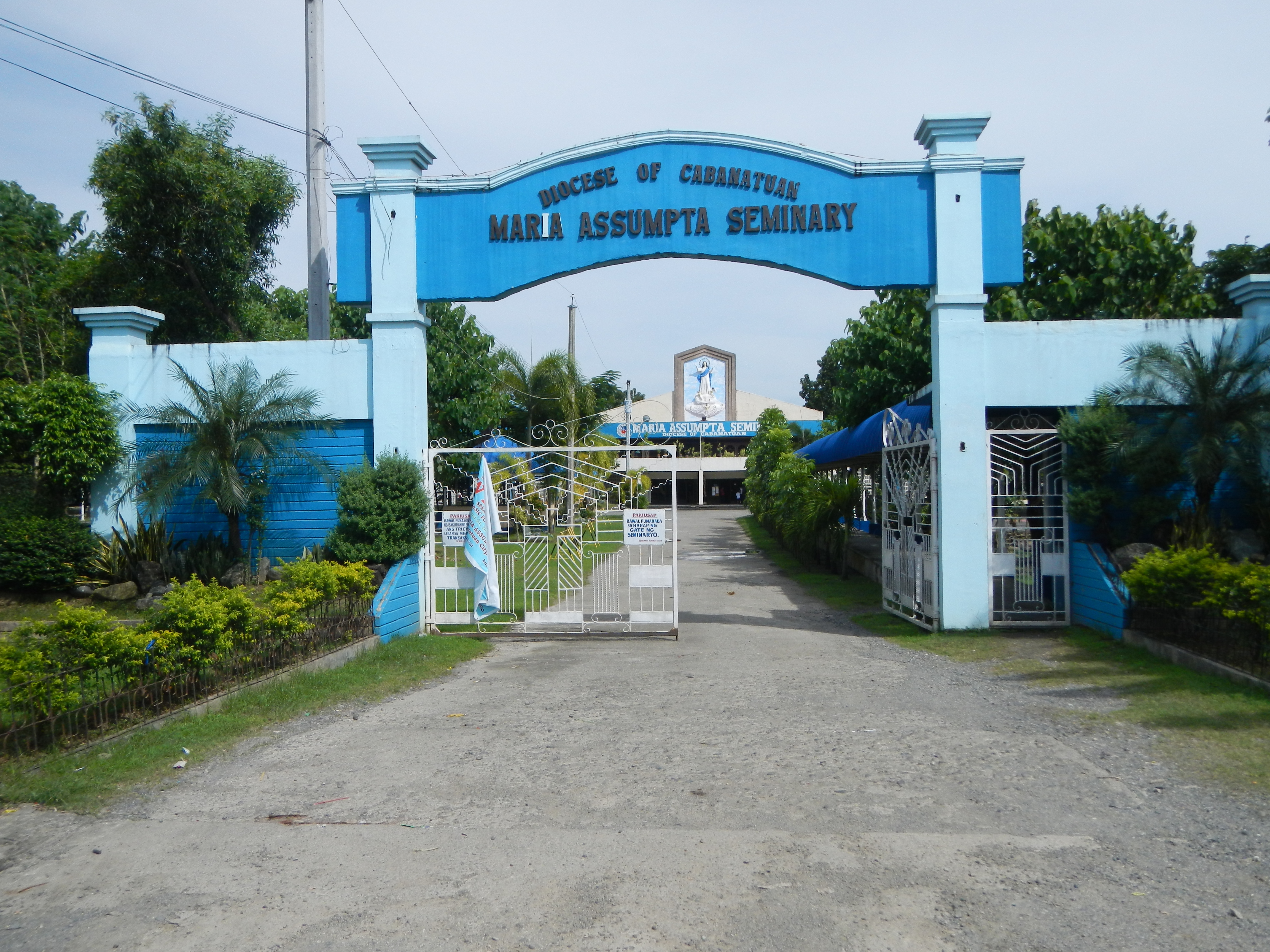 Maria Assumpta Seminary, Maharlika Highway, Cabanatuan City[1]